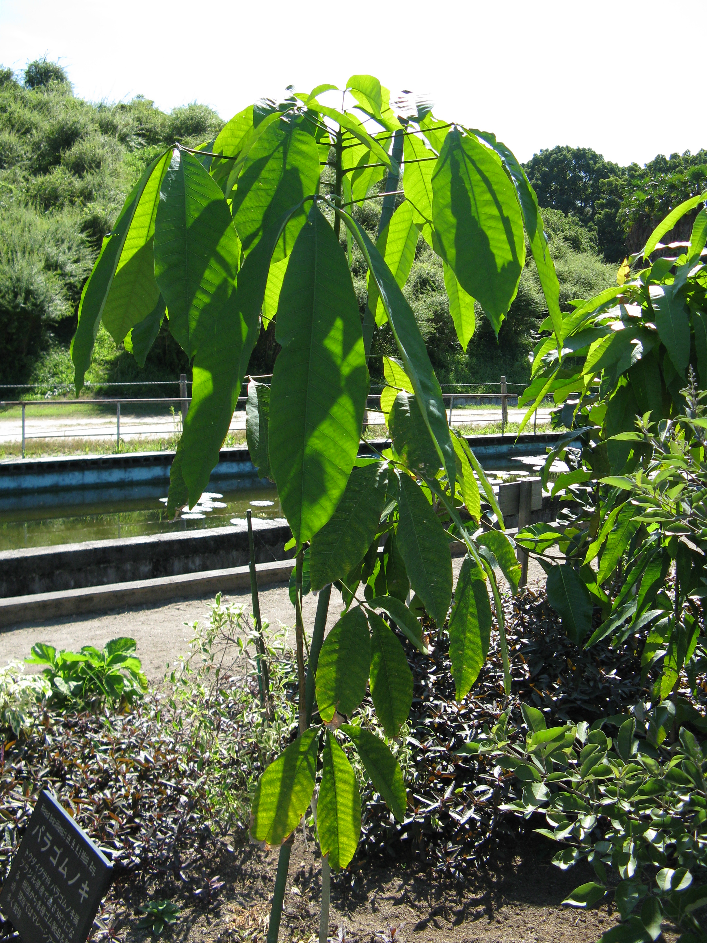 Scientific name Hevea brasiliensis